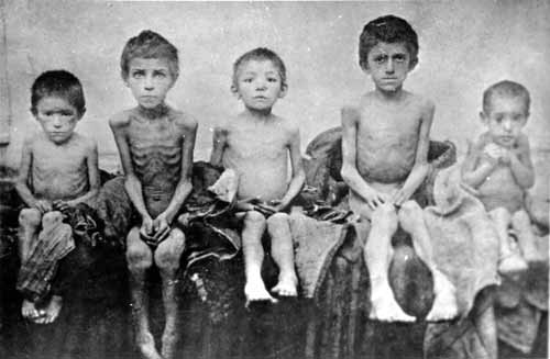 Starving children in 1922(Berdians'k) Ukrainian SRR. Photograph reproduced come from the documents of "Union international de secours aux enfants", deposited in the Canton Archives of Geneva.